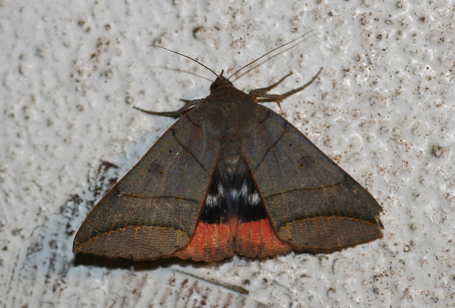 Malaysia, Fraser's Hill, March 2009